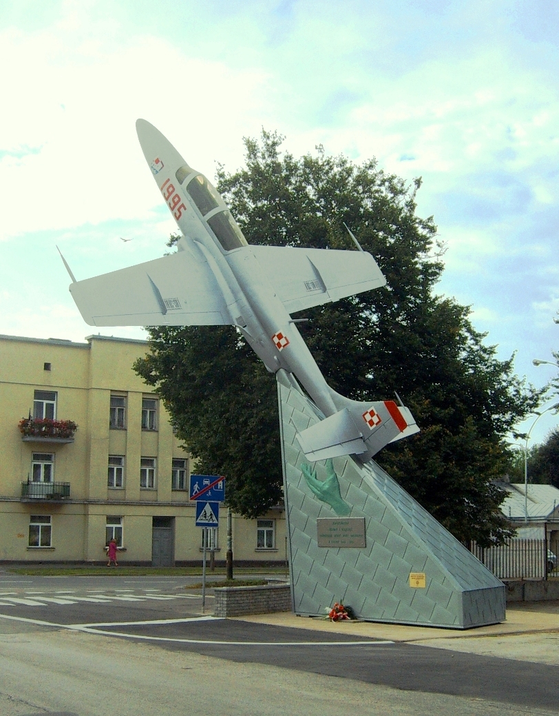 The Polish jet trainer aircraft "PZL TS-11 Iskra" in Zamość, Poland